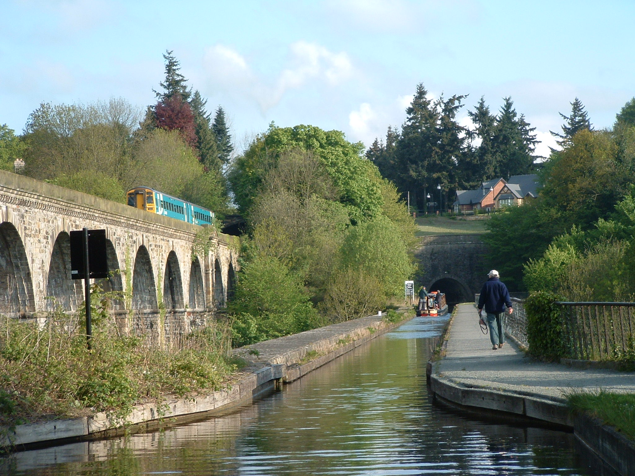 View over the Aqueduct Picture by Akke Monasso